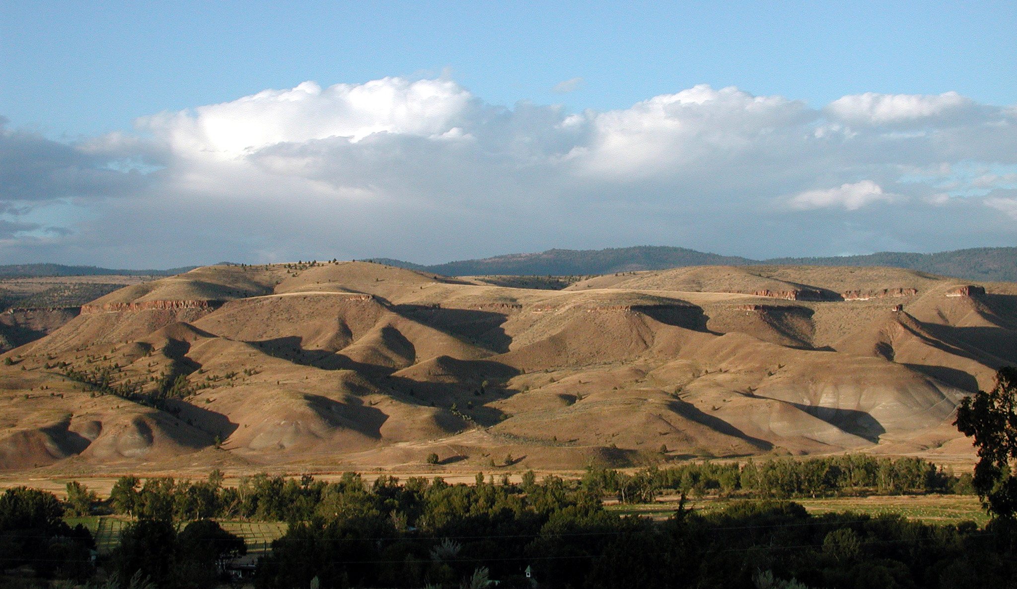 Ridge directly north of Dayville, Oregon, as seen from a hill south of town